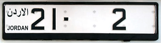 This is an example of a Jordanian registration plate.